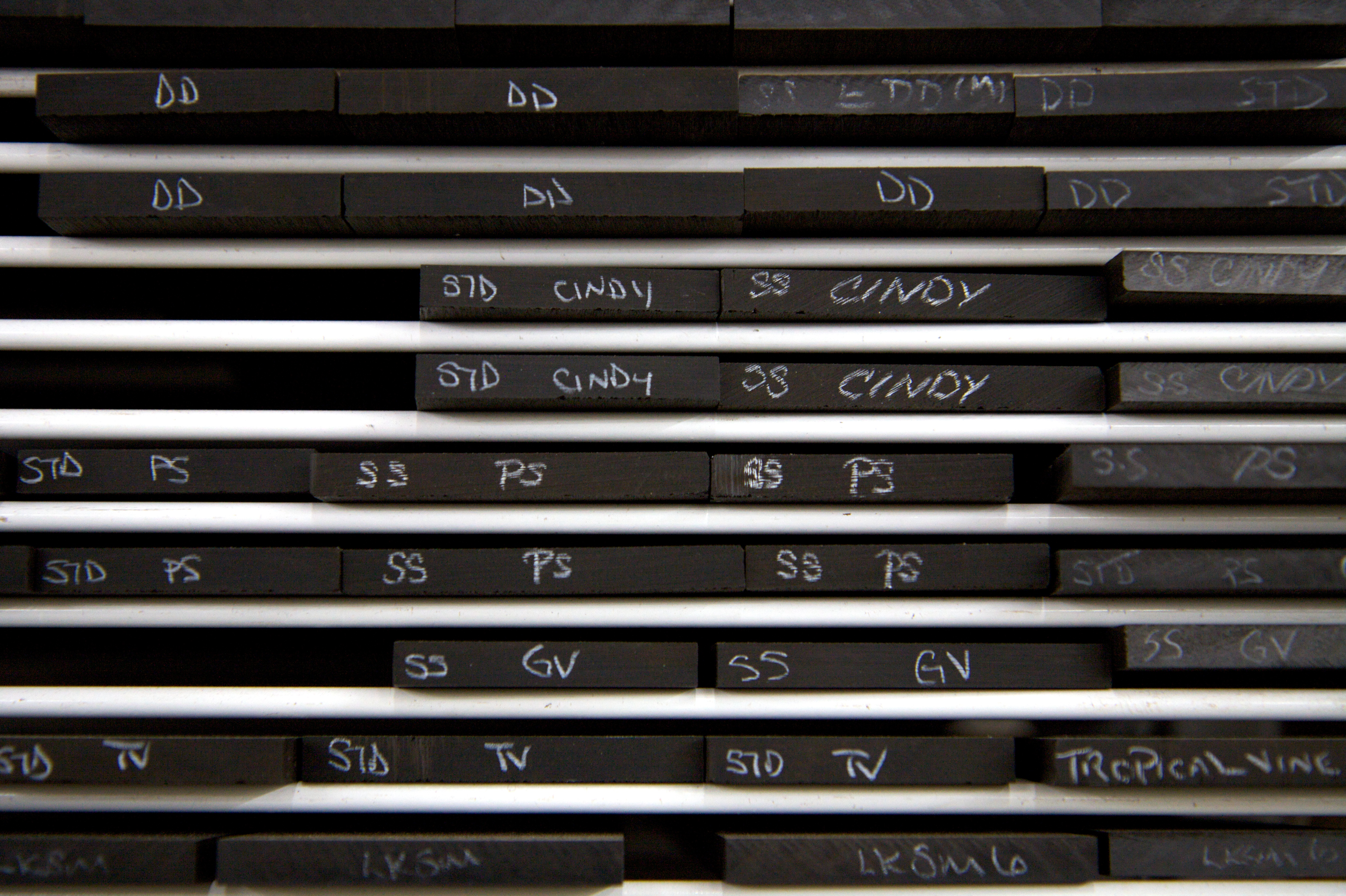 TGFT32 fretboard timber - Taylor Guitar Factory